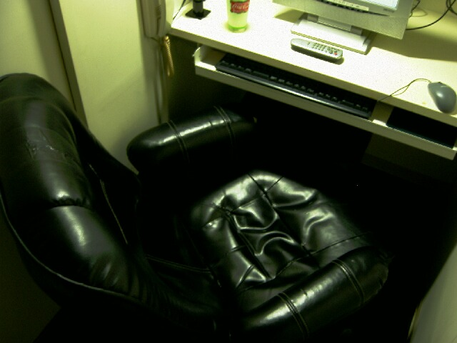 Internet_cafe Tokyo japan